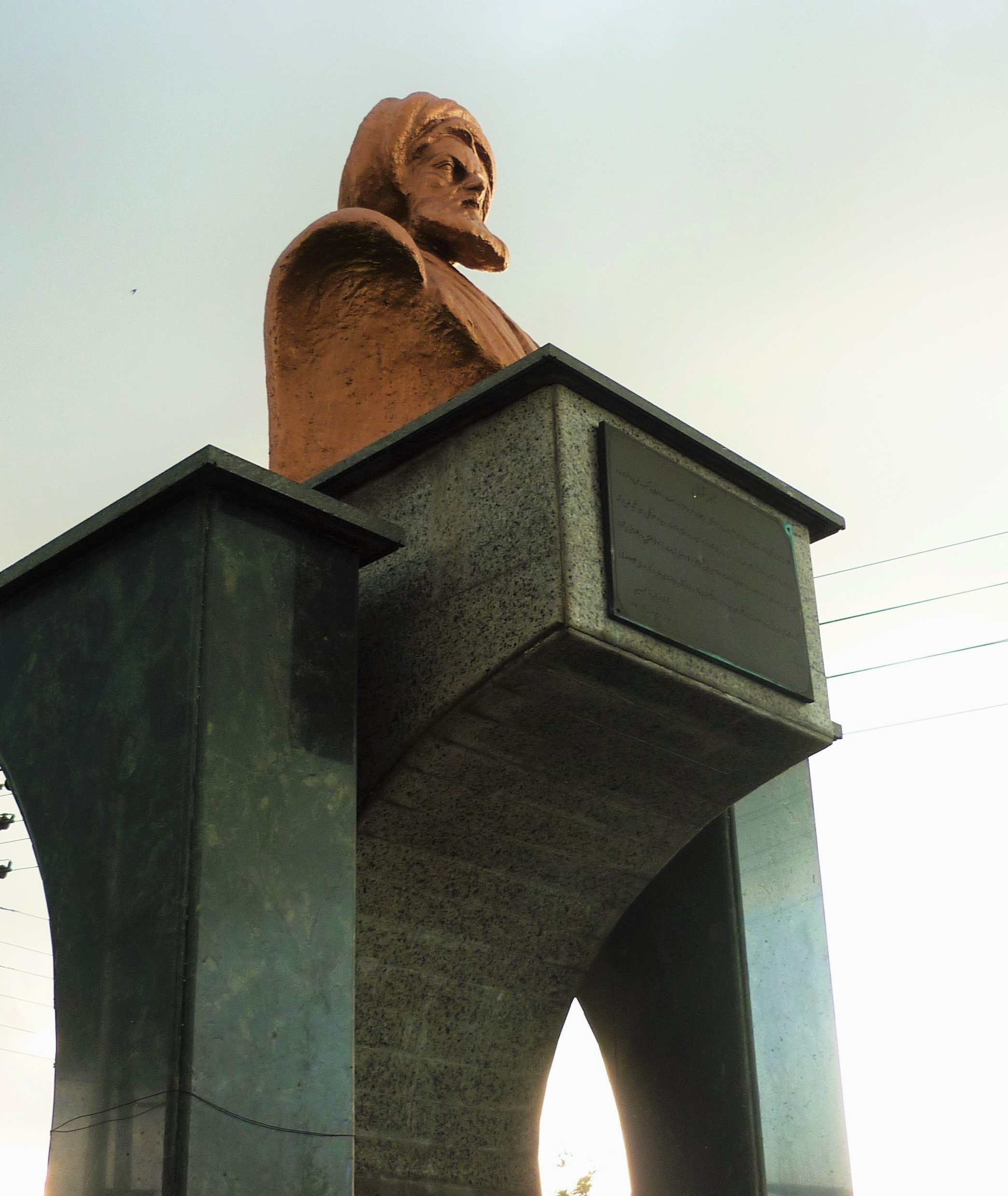 Statue of the field Sayyid Baha al-Din Haydar, Haydar al-'Obaidi al-Hossayni Amuli, or Seyyed Haydar Amoli or Mir Haydar Amoli